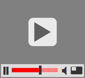 Video Icon2